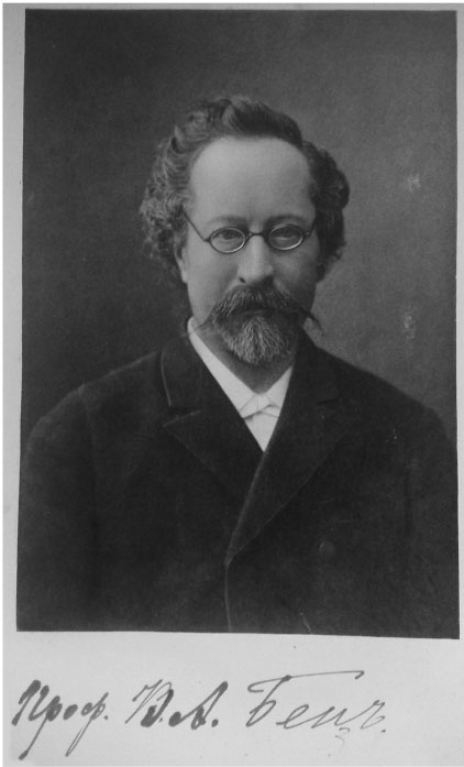 Vladimir Alekseyevich Betz